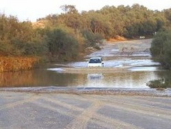 sewage flowing on Zeelim Bridge, near Kibbutz Zeelim, Nahal Habsor.